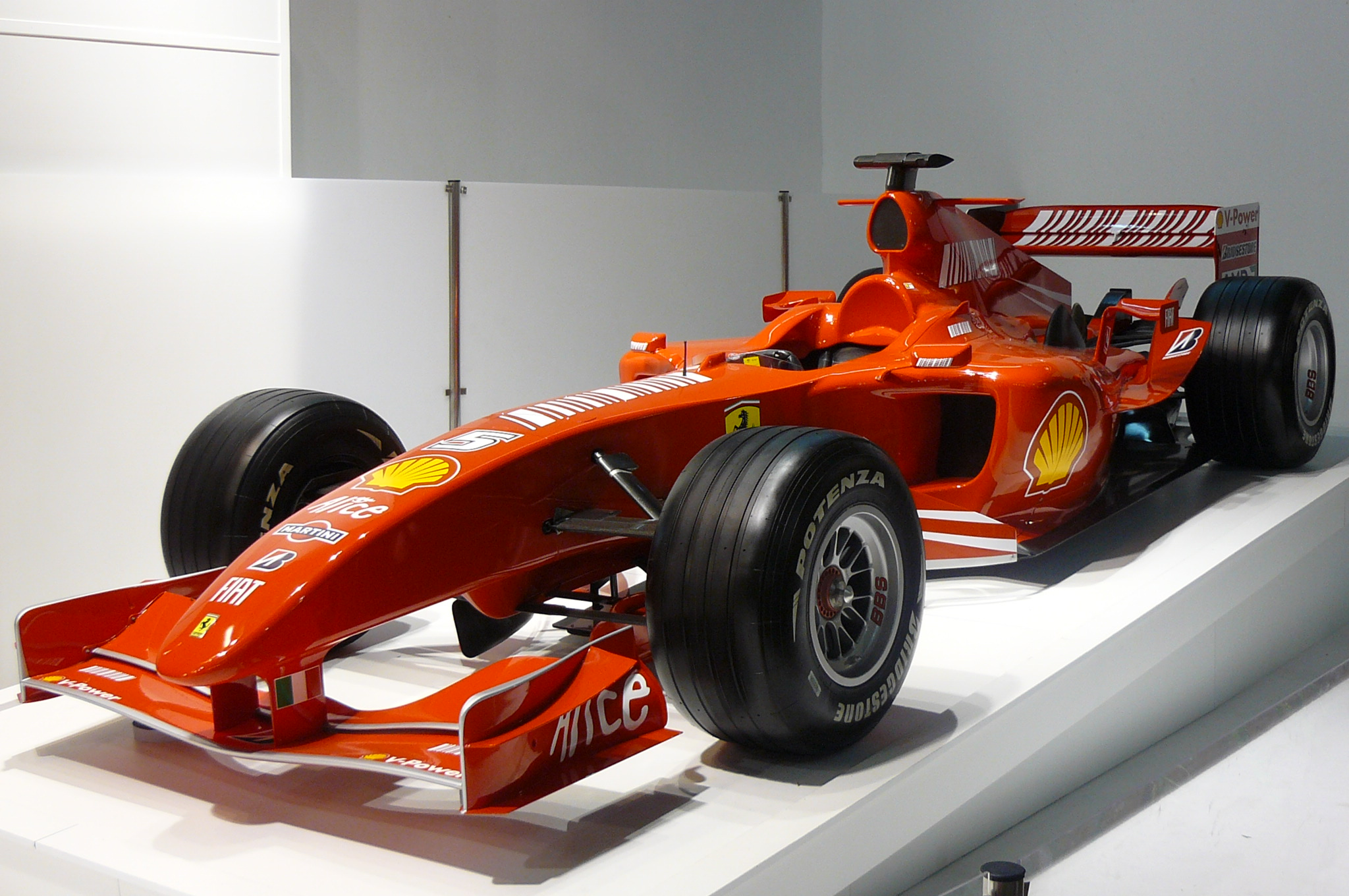 Ferrari F2007, 2007 Barcelona motorshow